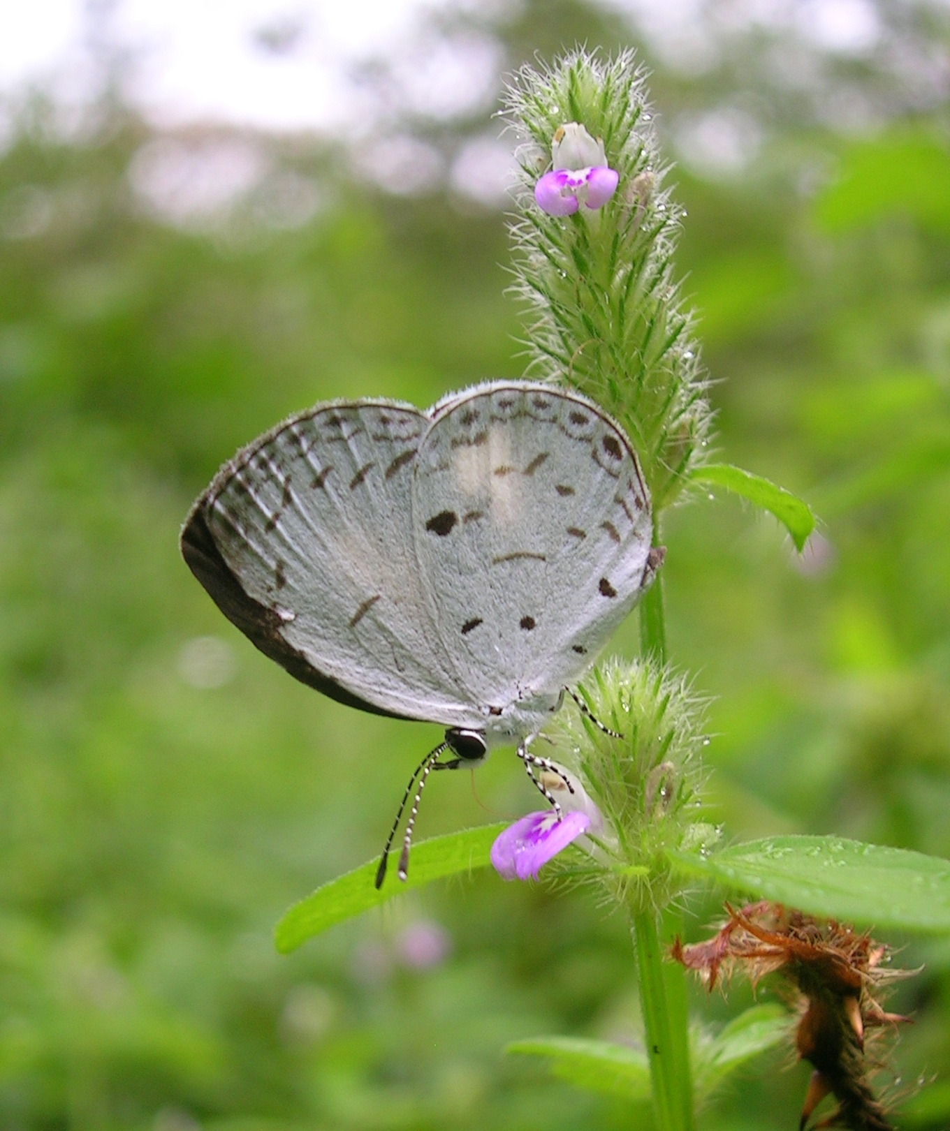 Neopithecops zalmora. From North Wayanad, Kerala, India